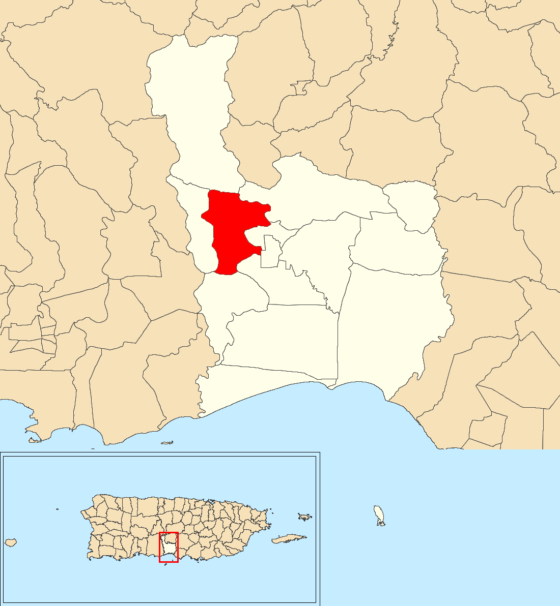 Jacaguas, Juana Díaz, Puerto Rico locator map